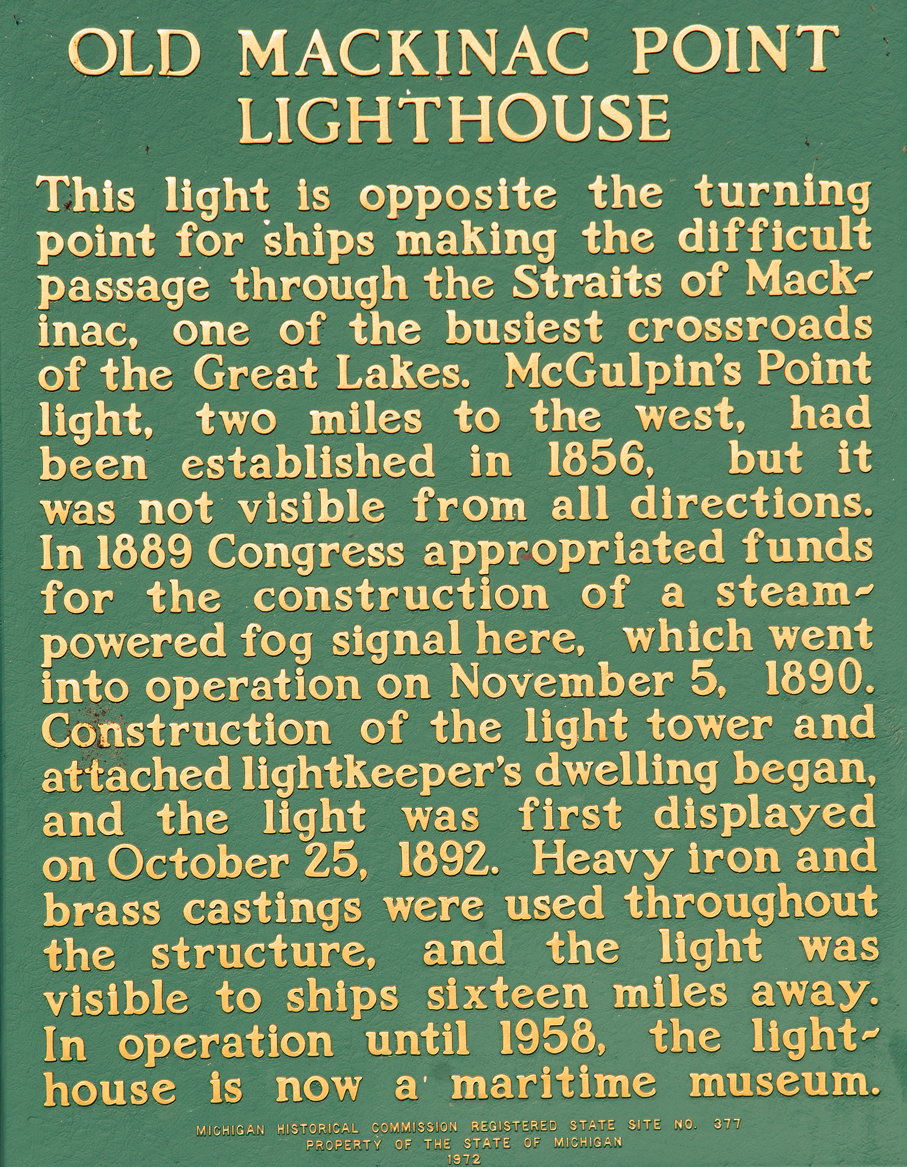 Sign, Old Mackinack Point Lighthouse, Mackinaw City, Michigan